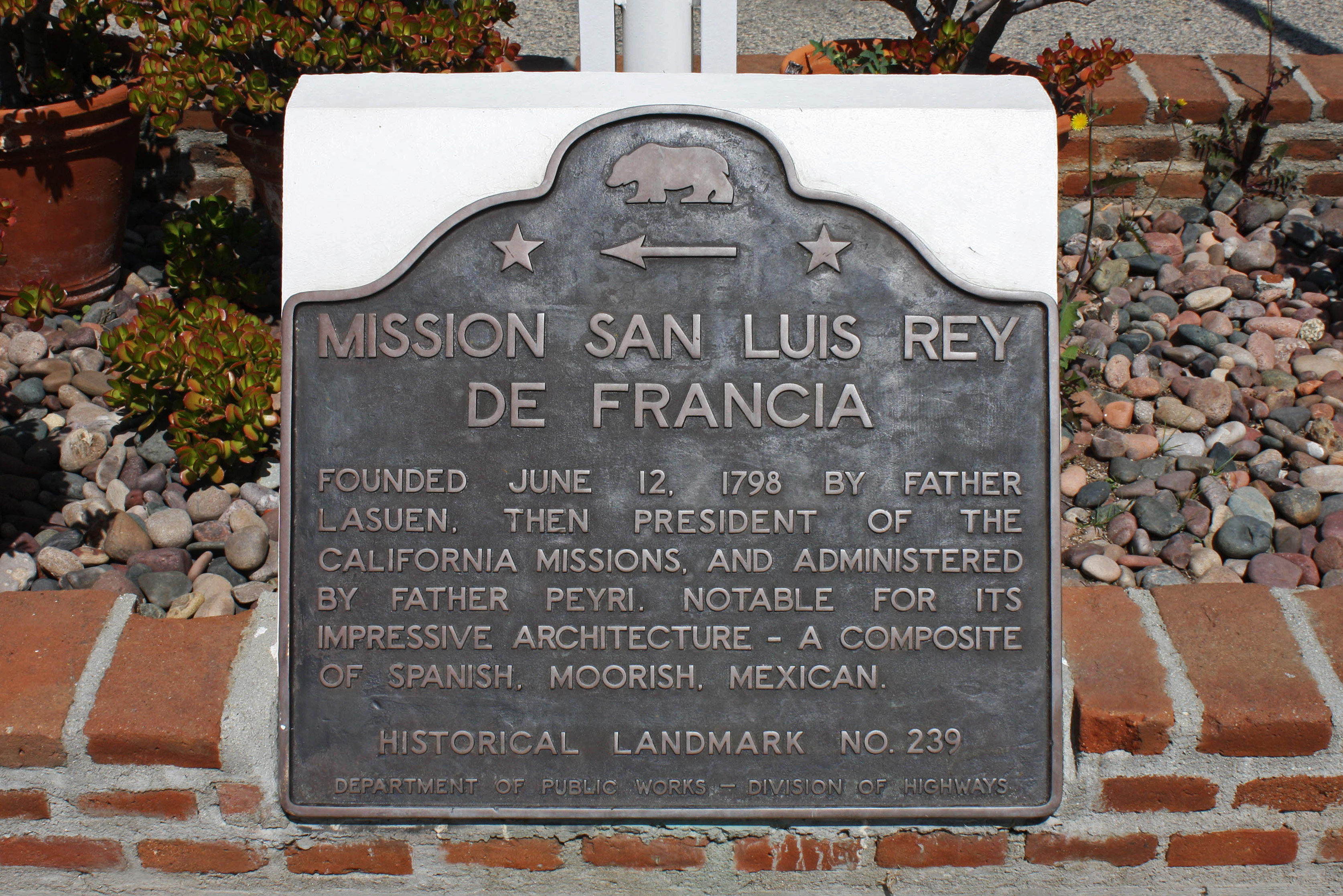 Plaque of the Mission San Luis Rey de Francia, Oceanside, California